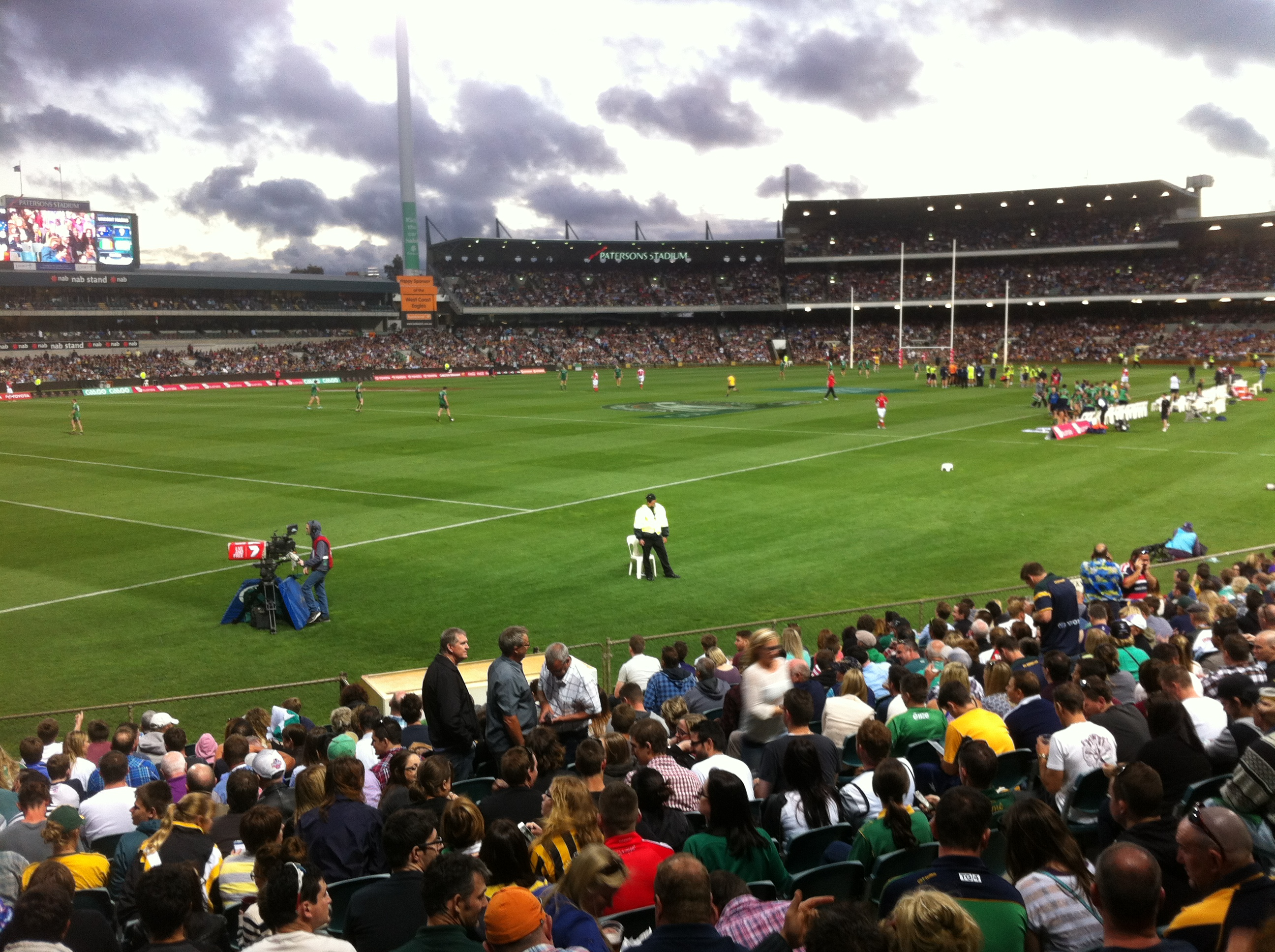 Australia vs Ireland International rules Game Nov 22 2014 Paterson Stadium Restart of play